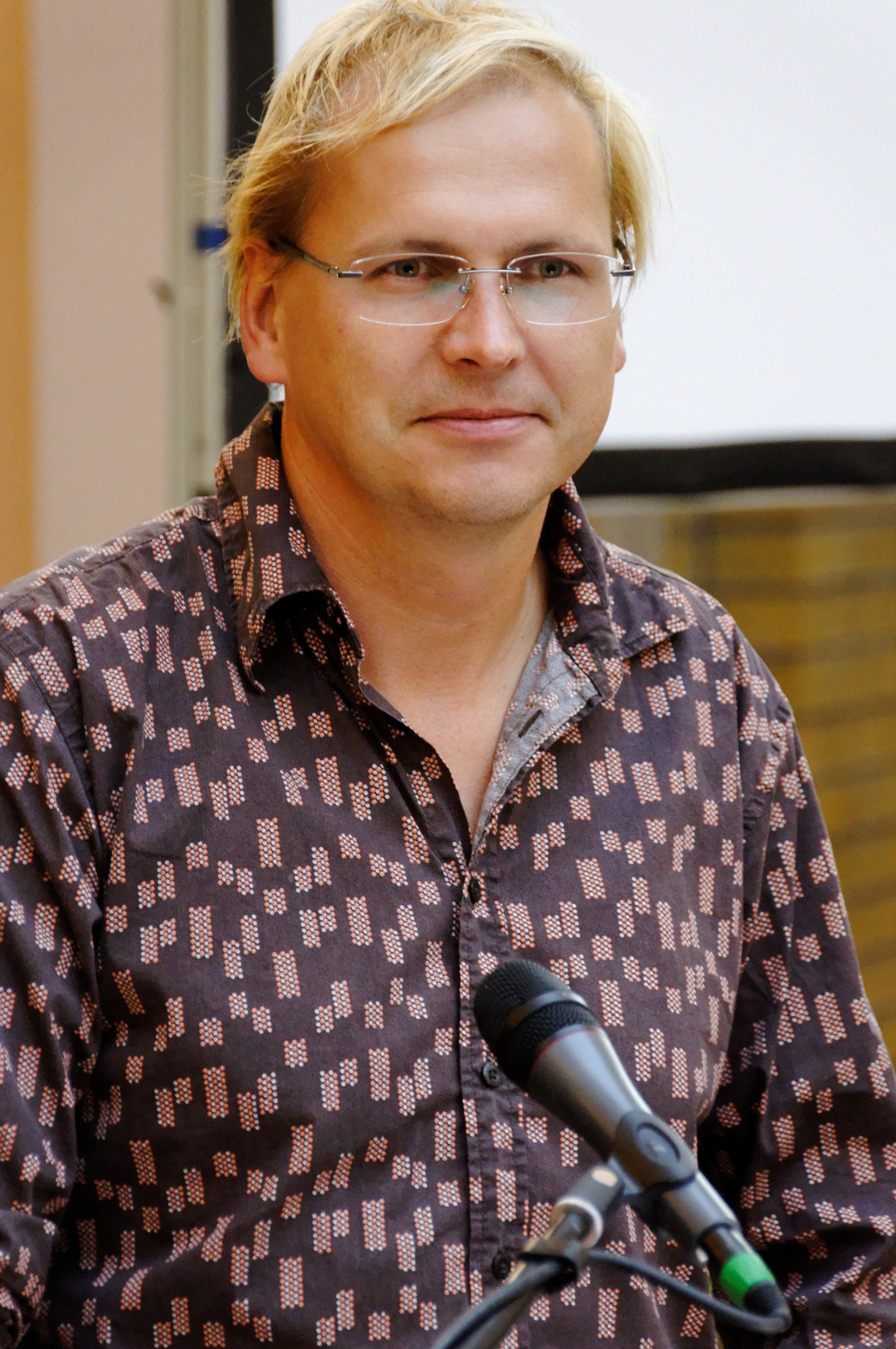 Wikipedia: A critical point of view. CPOV-Conference in Leipzig Germany; September 2010 Ramón Reichert